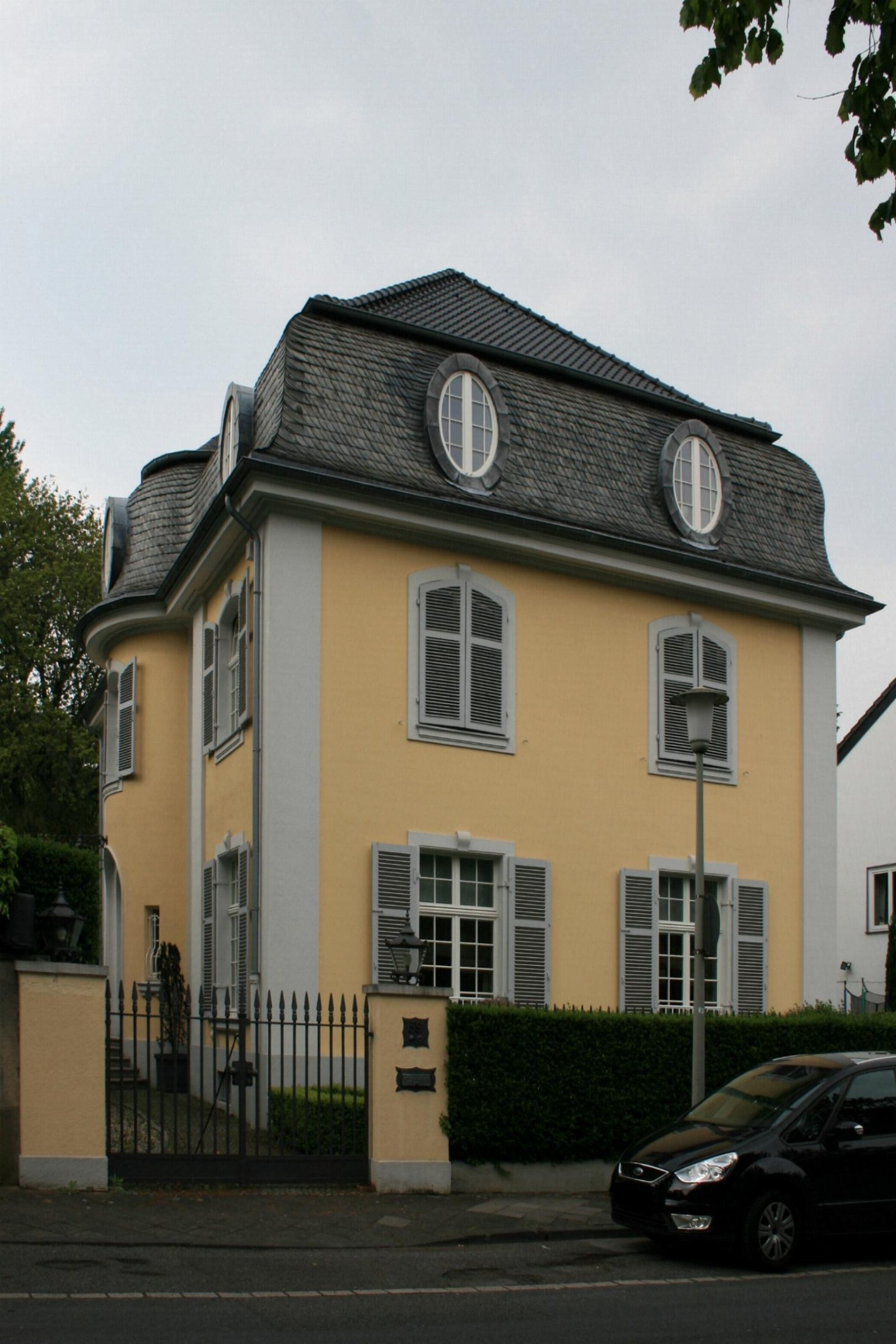 Cultural heritage monument No. B 125 in Mönchengladbach